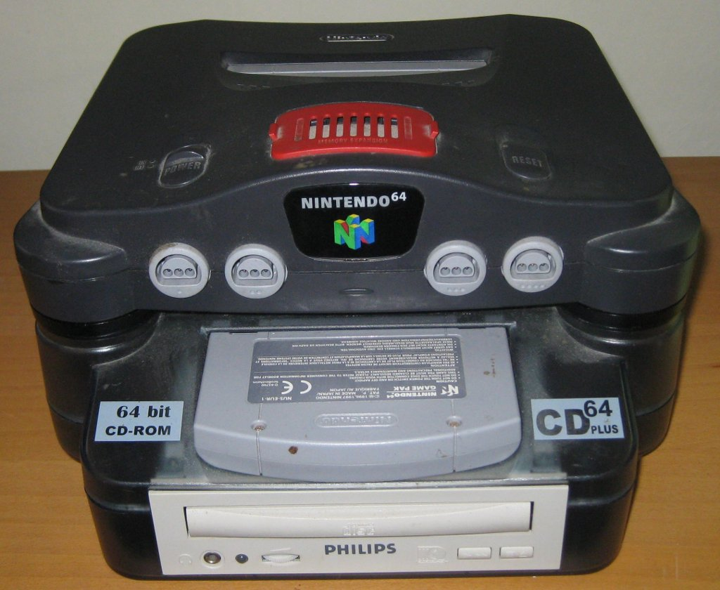 A photo I took of a very old N64 and CD64 at a carboot sale.